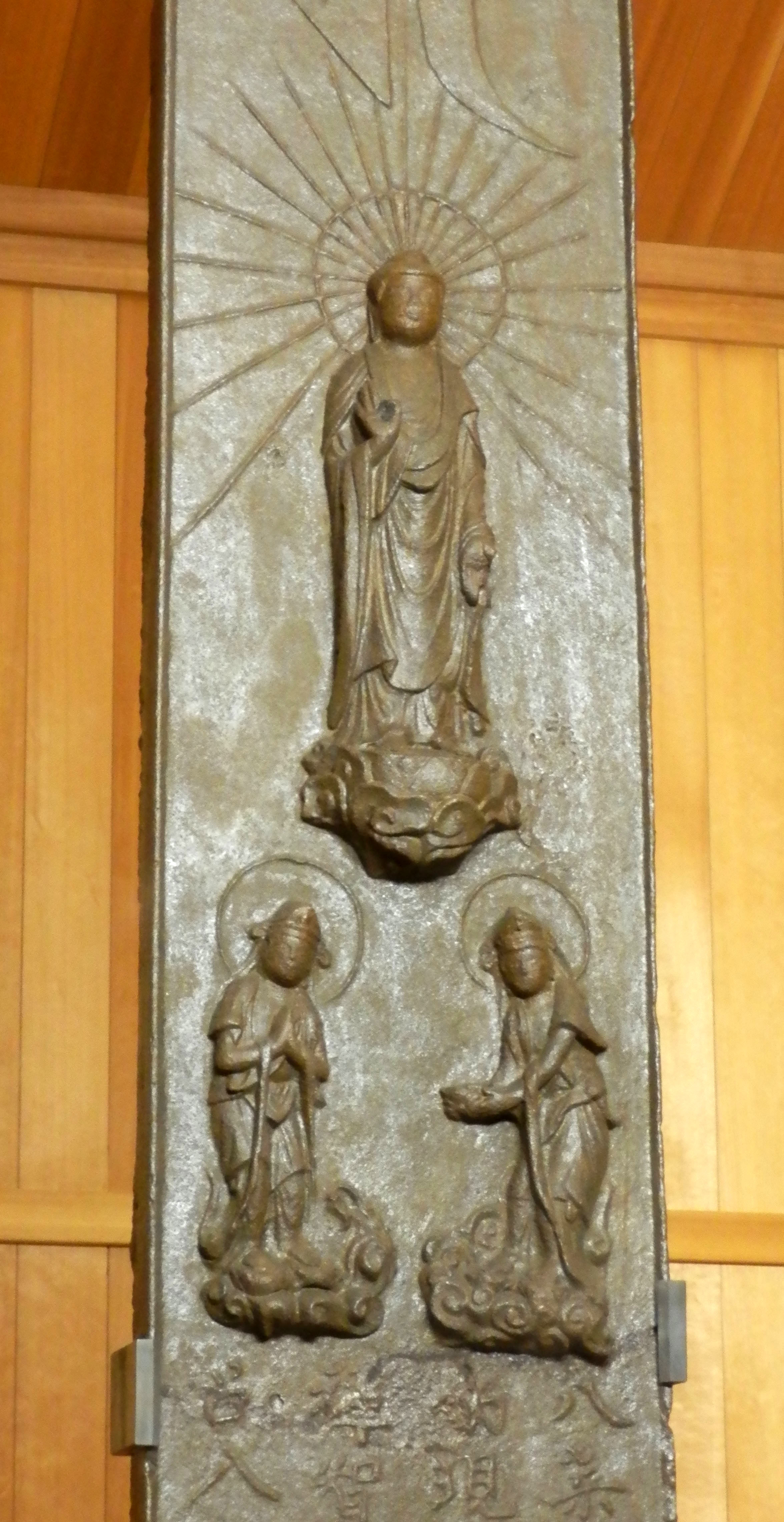 Seiganji Tetsutoba (enlarged) (Iron stupa in Utsunomiaya, Japan)